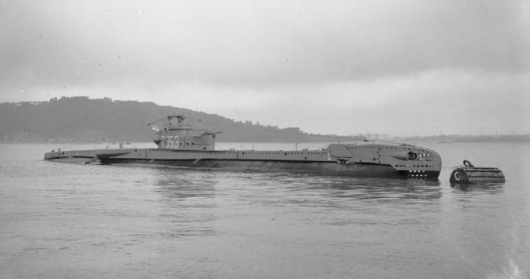 British T class submarine HMSM TRUNCHEON secured to a buoy in Plymouth Sound.